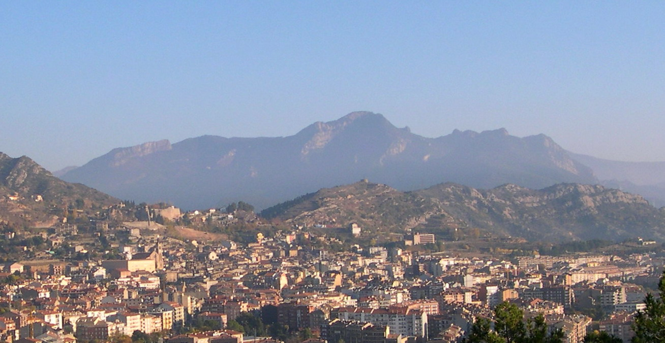 Berga city and Catllaràs mountains (Berguedà, Catalonia) Map